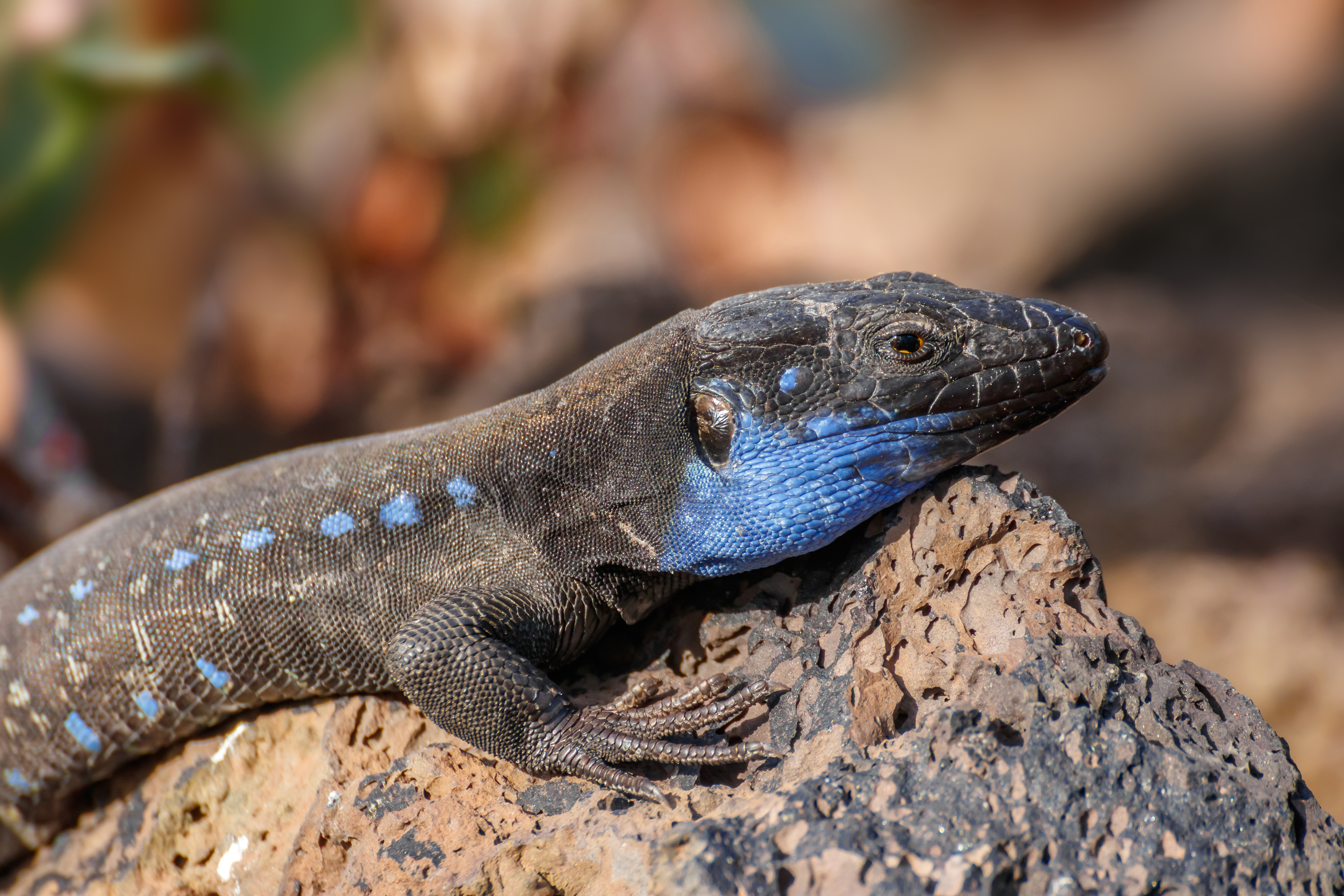 Gallotia galloti palmae (Boettger & Müller, 1914), Western Canaries lizard, male; Los Cancajos, Breña Baja, La Palma, Canary Islands, Spain.